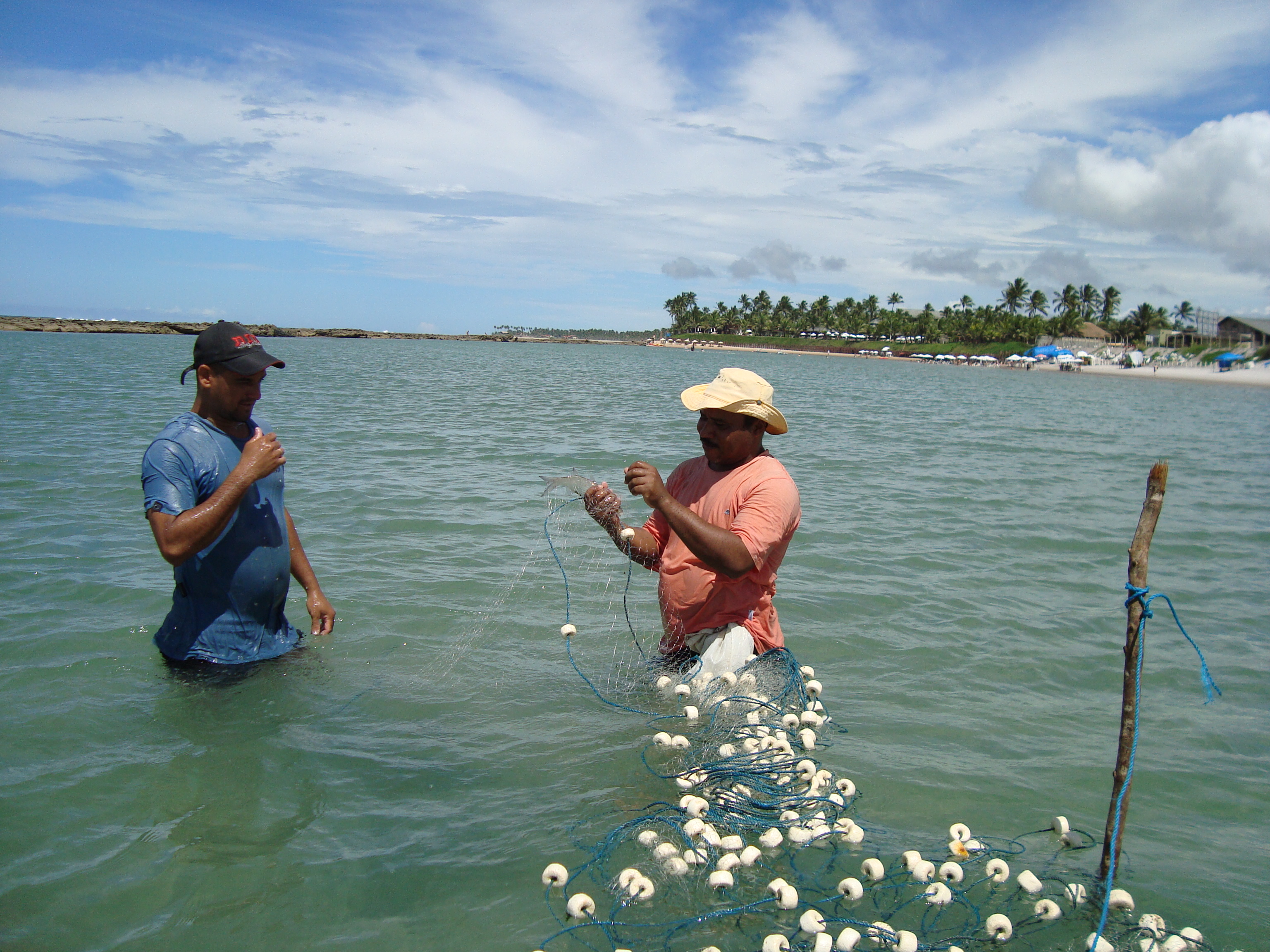 Fishermen at Porto de Galinhas, Ipojuca, Pernambuco, Brazil